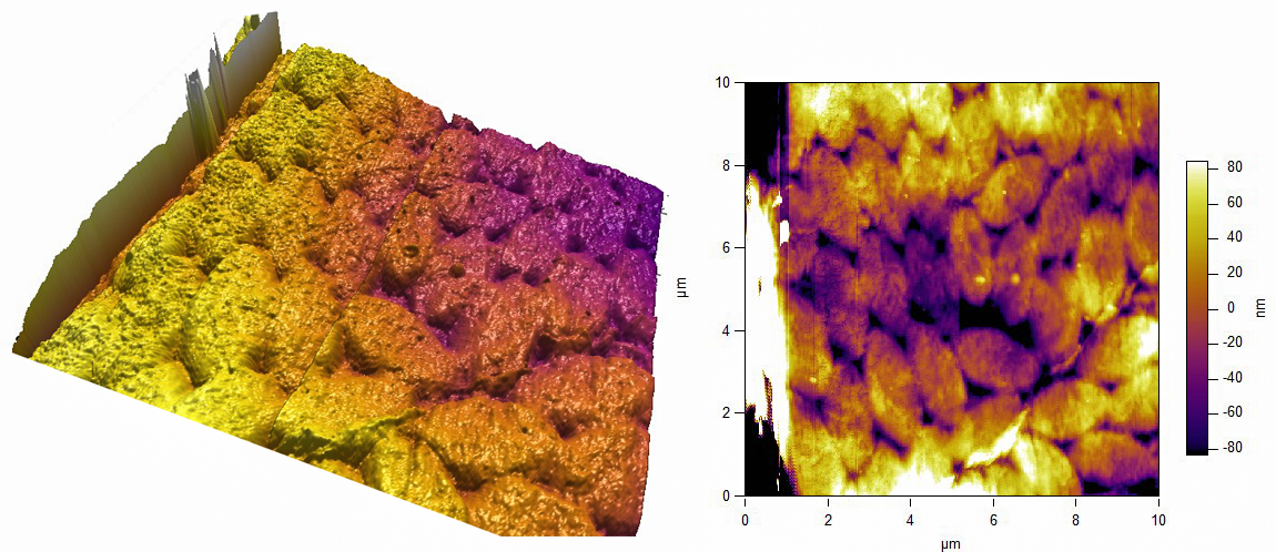 AFM image of the barbules on the Gorgeted Sunangel Hummingbird (Heliangelus strophianus). Plates on the surface are clearly visible. Inside these plate-like structures the structure generating the color resides. The plates are 3 μm thick, 1 μm long, and around 80 nm high, so they are too big for generating the colors themselves.